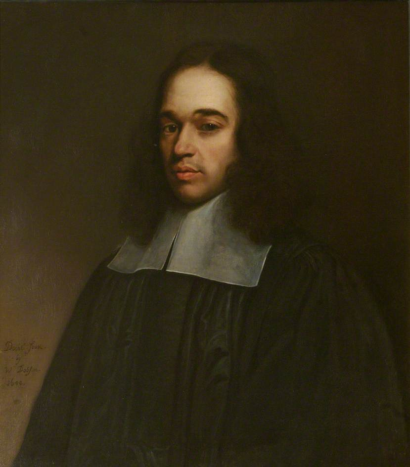 Dr Robert South, clergyman and poet